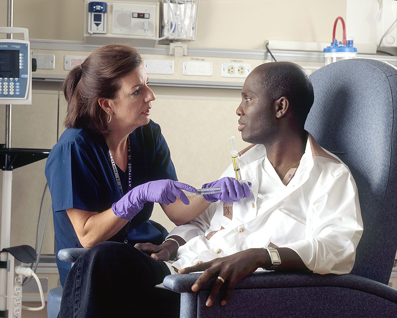 Title Nurse Administers Chemotherapy Description A Caucasian female nurse administers chemotherapy through a catheter to an African-American male patient in a clinical setting. Topics/Categories Locations -- Clinic/Hospital People -- Adult People -- Health Professional and Patient Treatment -- Chemotherapy Type Color, Photo Source National Cancer Institute